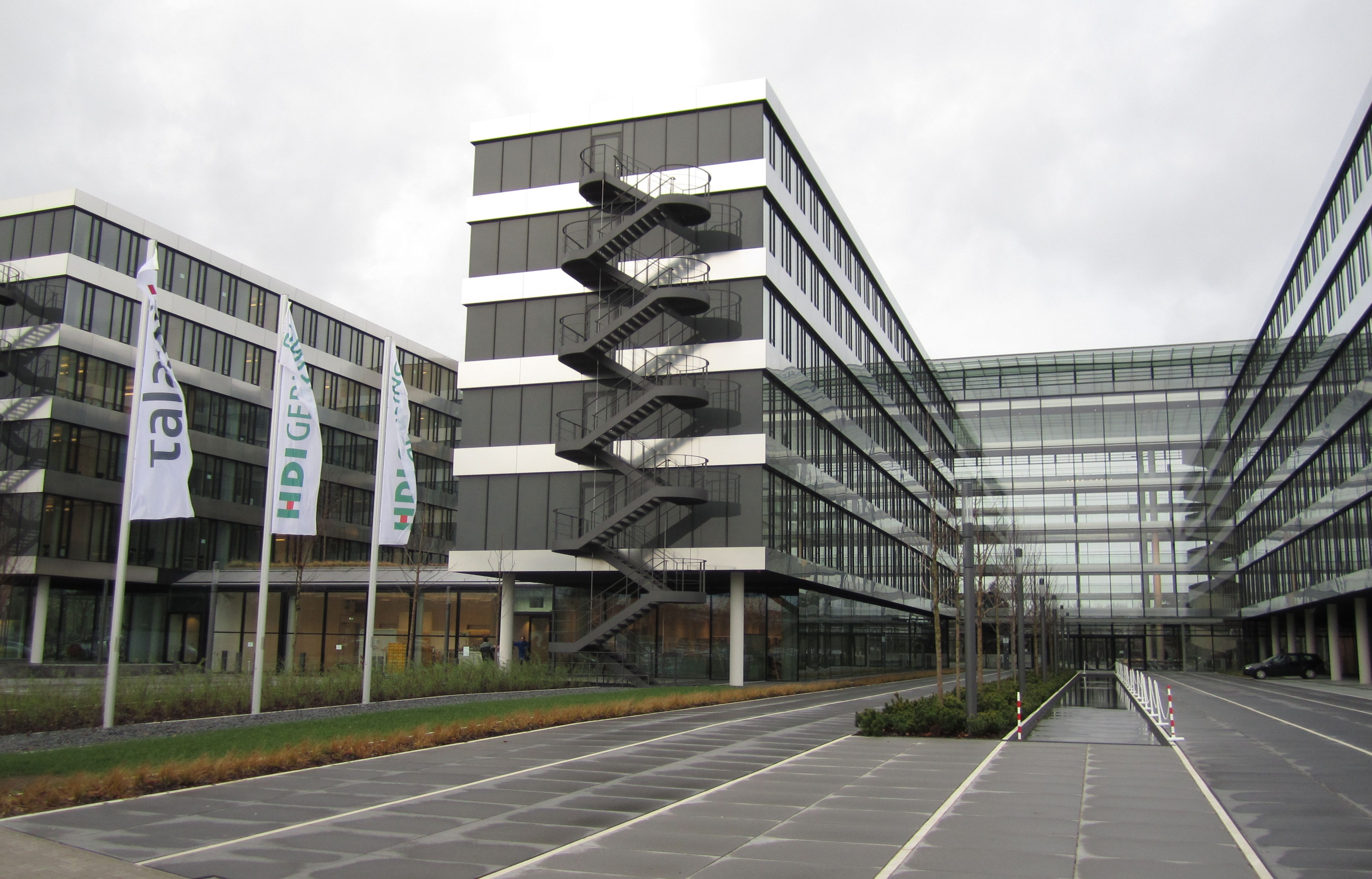 Office building of insurance group HDI-Gerling / Talanx in Hanover, Germany.